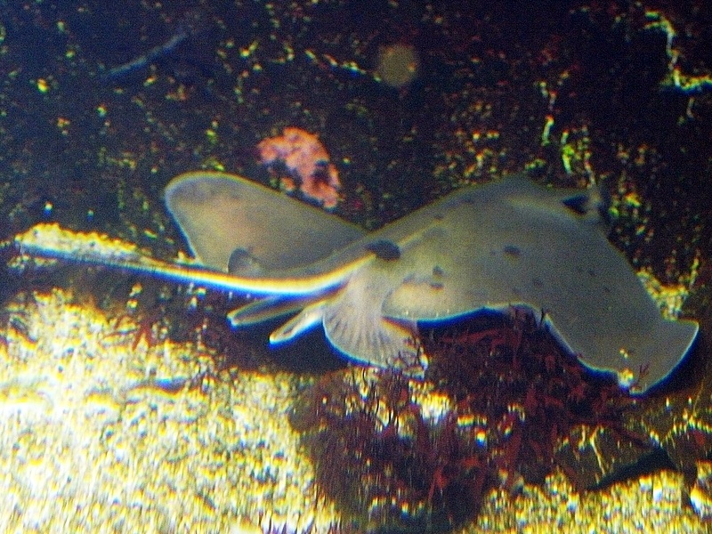 Japanese eagle ray (Myliobatis tobijei)